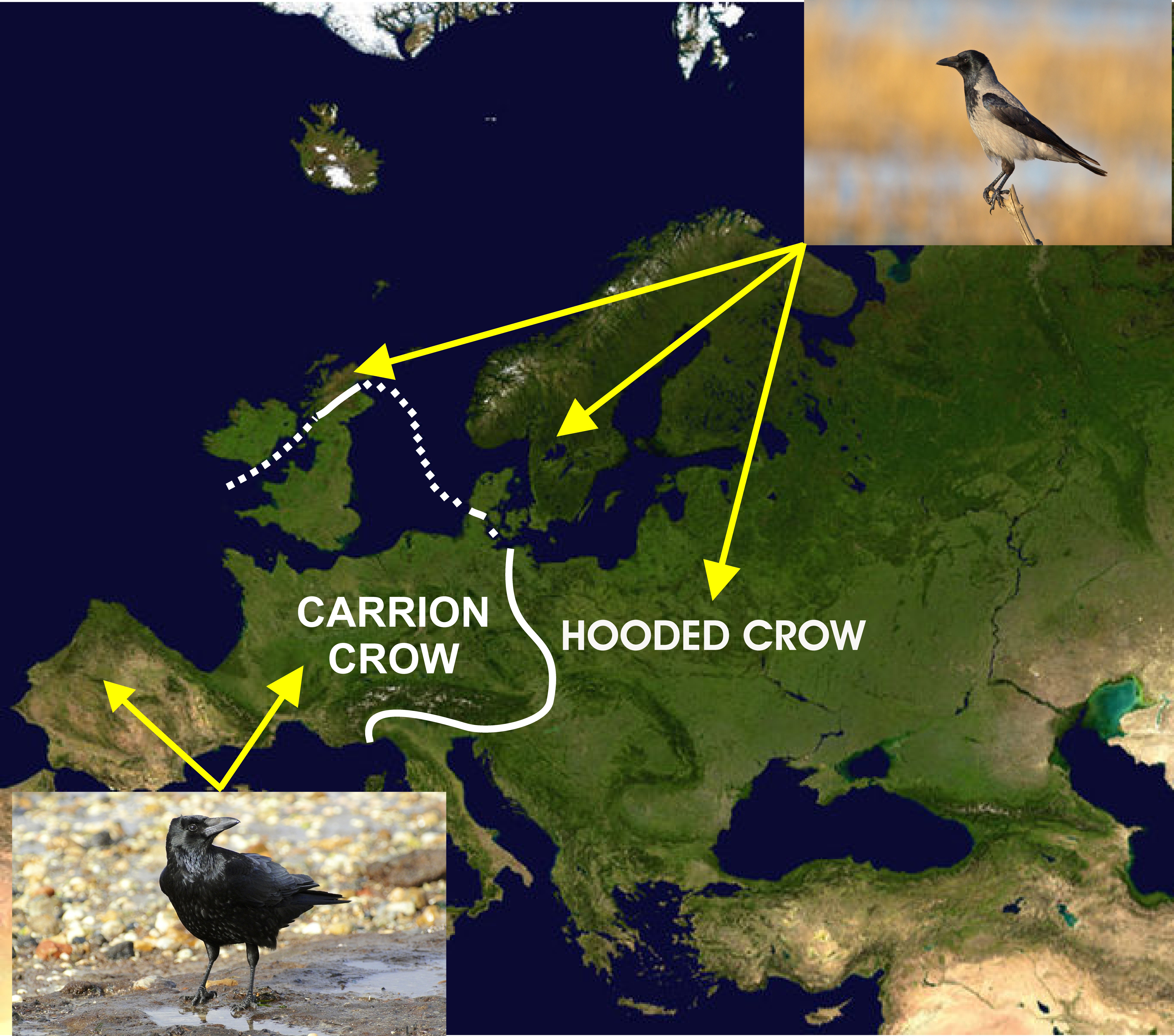 An image created using a combination of Wikimedia Commons images (File:Europe satellite globe.jpg; File:Corvus corone -near Canford Cliffs, Poole, England-8.jpg; and File:Nebelkrähe Corvus cornix.jpg) to illustrate the distribution of the Carrion Crow Corvus corone and Hooded Crow Corvus cornix across across Europe. The white line indicates the contact zone between the two species - the Carrion Crows occurring to west and south of the line; the Hooded Crows to the east and north of the line. A second version of this map, File:Distribution of hooded and carrion crows across Europe by their Latin names.JPG with only the Latin names of the birds mentioned can be used for Wikipedia purposes in languages other than English.